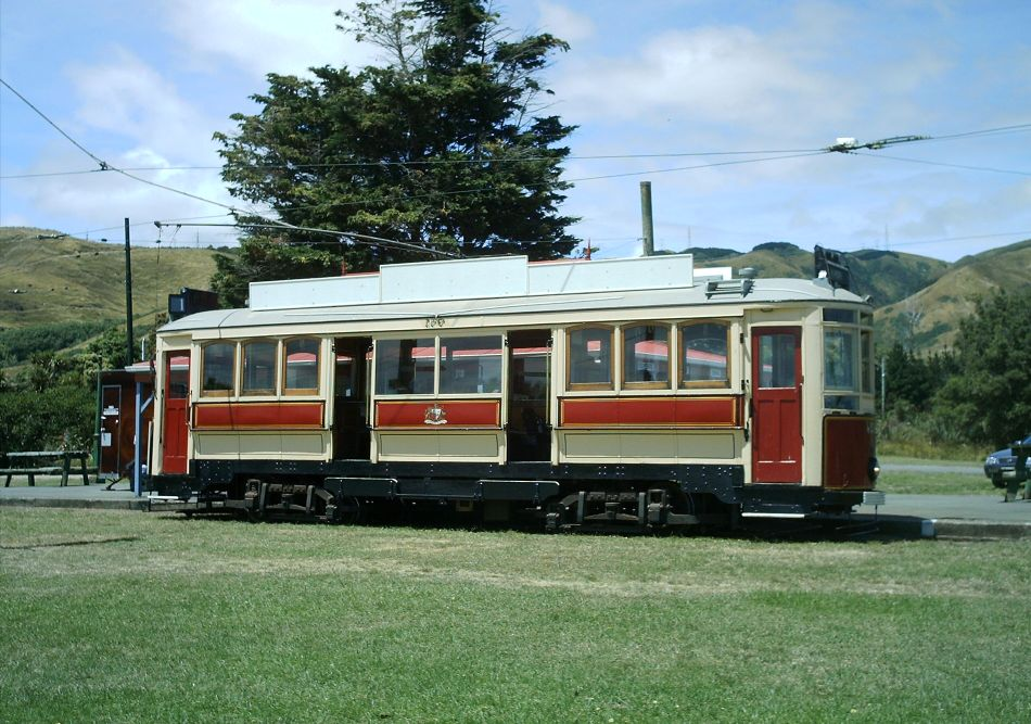 Former Wellington electric double-saloon tram car 159 at the Wellington Tramway Museum, Paekakariki, New Zealand.